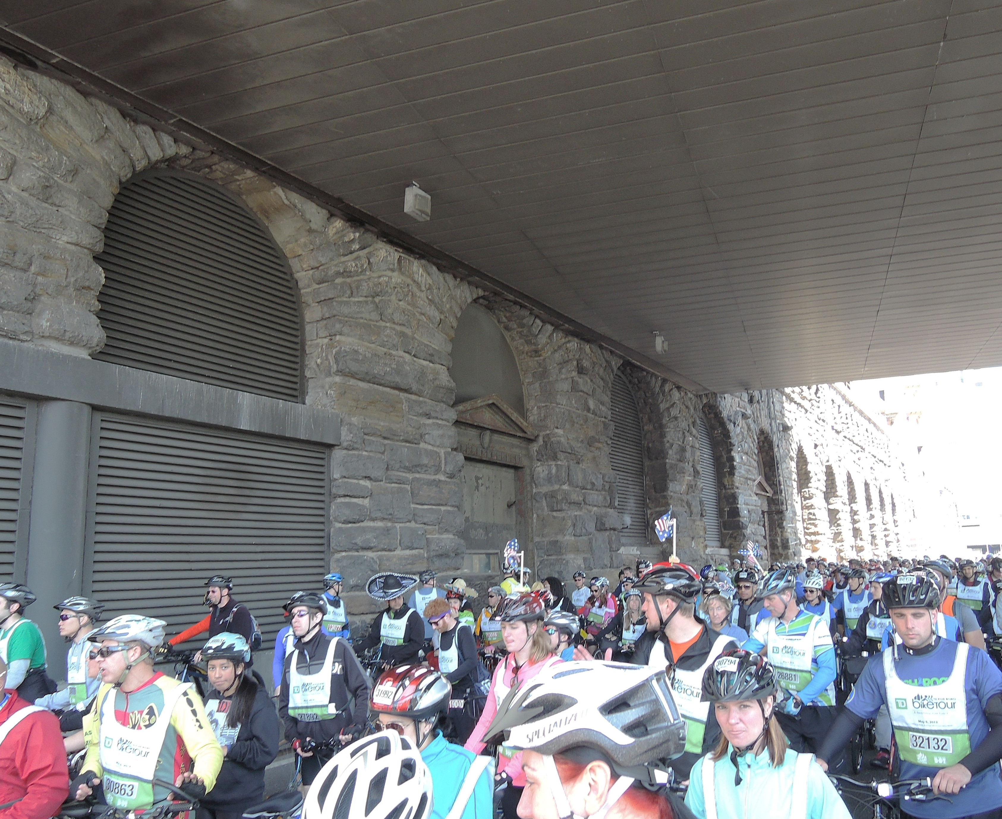 Looking north at traffic jam against the wall.